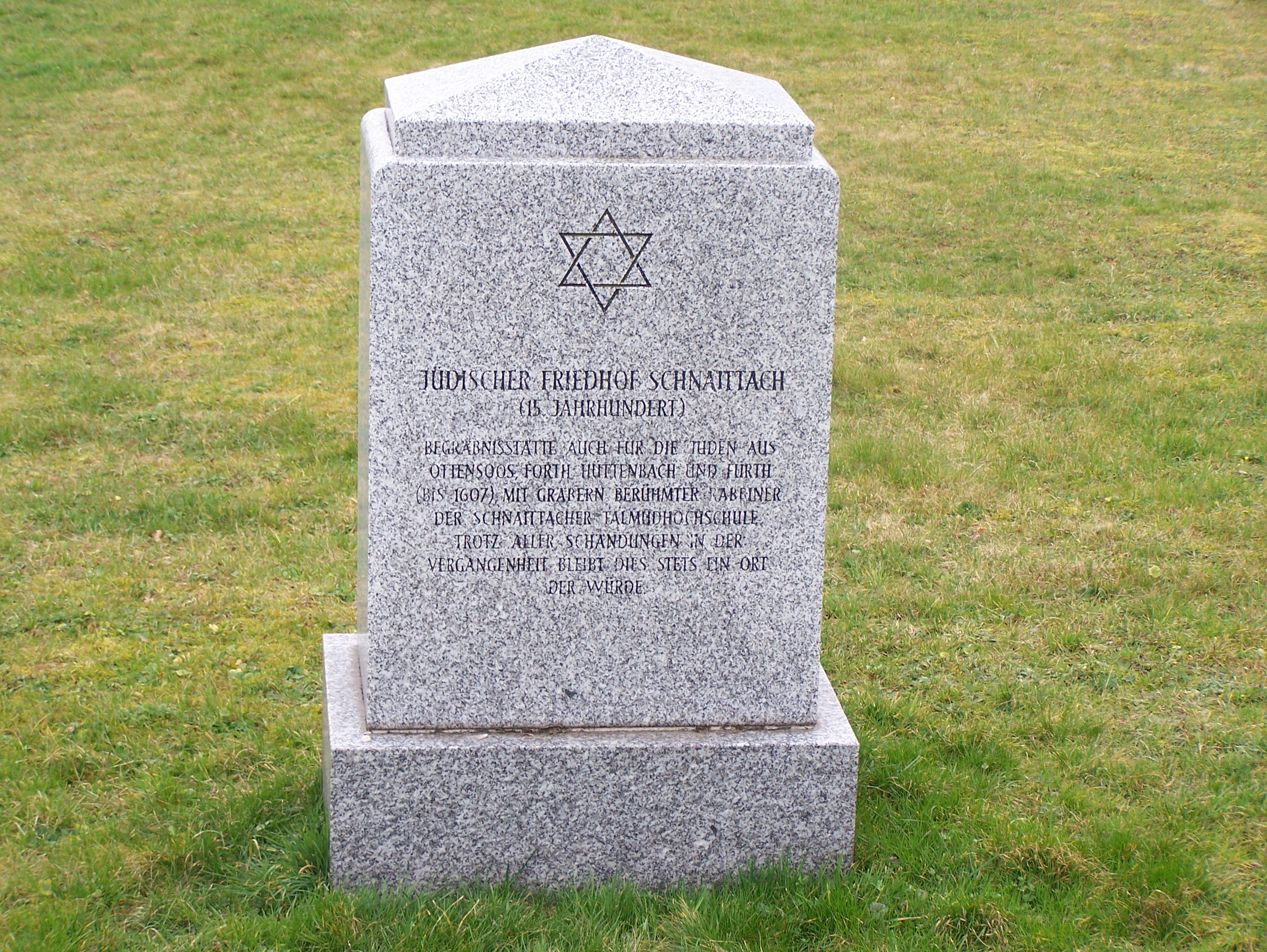 Memorial stone in the second jewish cemetery in Schnaittach, Germany.